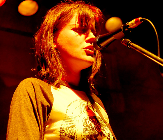 Abbe May performing with her group Abbe May & the Rockin' Pneumonia, Fly by Night Musician's Club, Fremantle, WA, on 3 August 2008